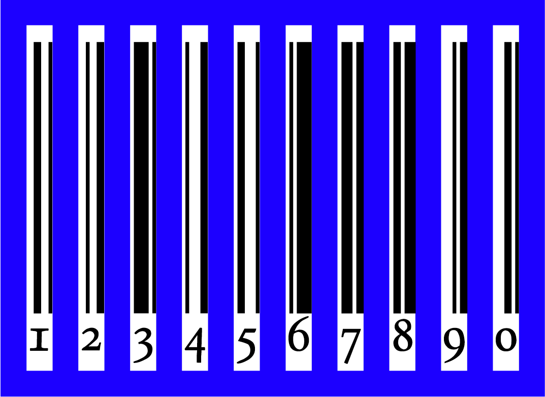 whole EAN-font, code L